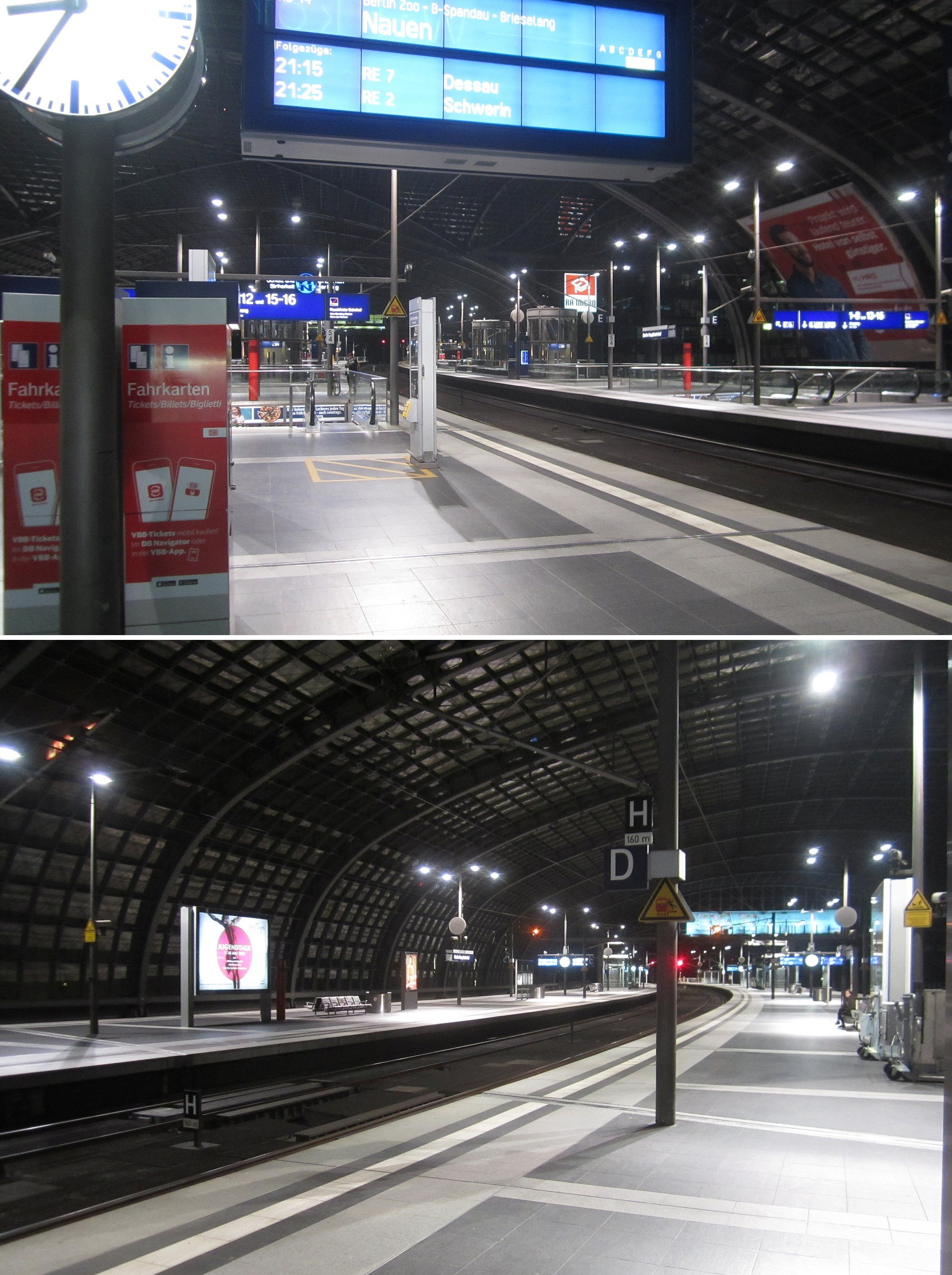 Berlin Hauptbahnhof during the Covid-19 pandemic. 28.03.2020, 20:25, upper platform hall, looking east and west.